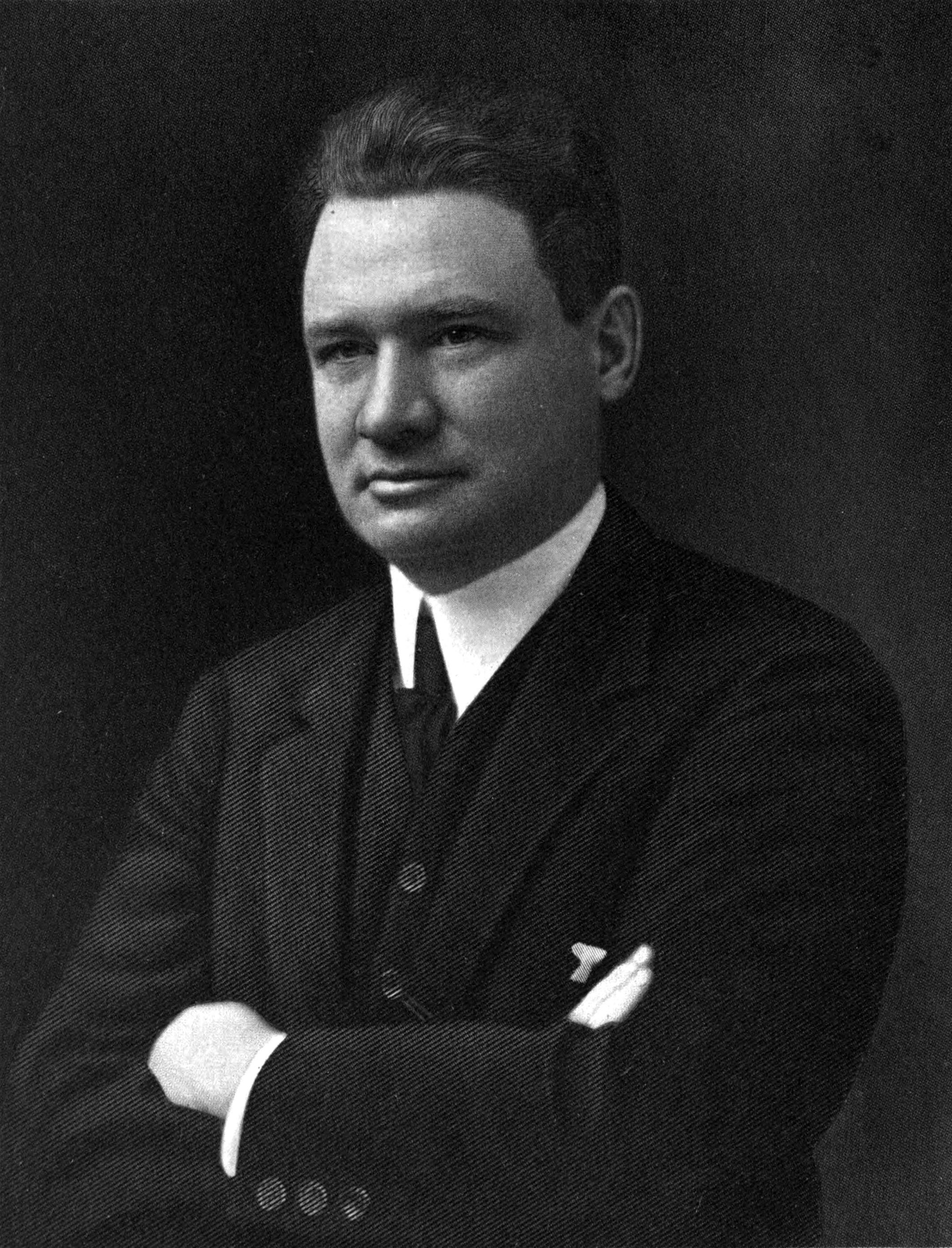 Engraved portrait of United States classical music composer Frederick S. Converse